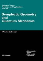 Thumbnail of the book - Symplectic Geometry and Quantum Mechanics.